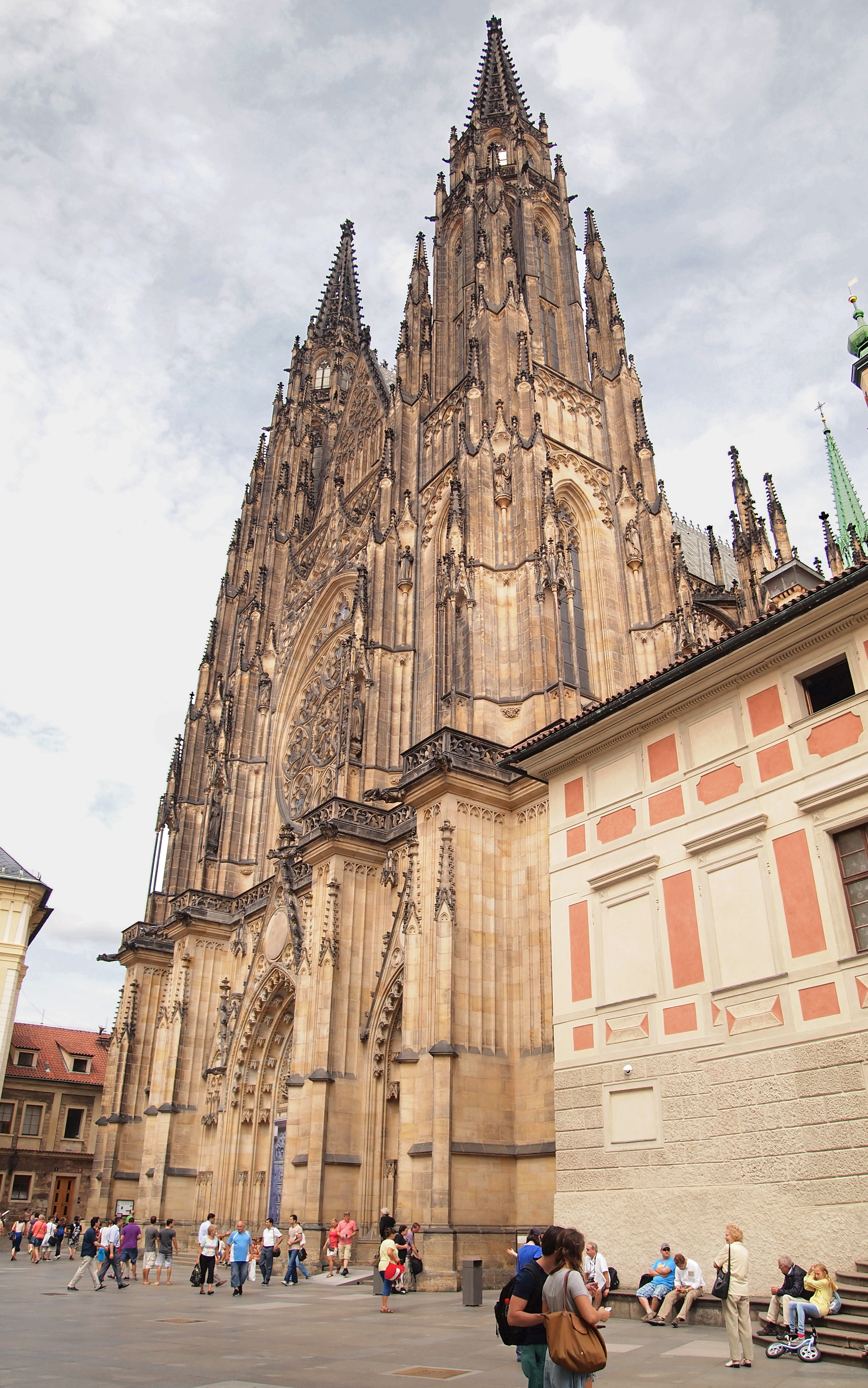 West facade of St. Vitus Cathedral in Prague. This photograph was taken with an Olympus E-PL1